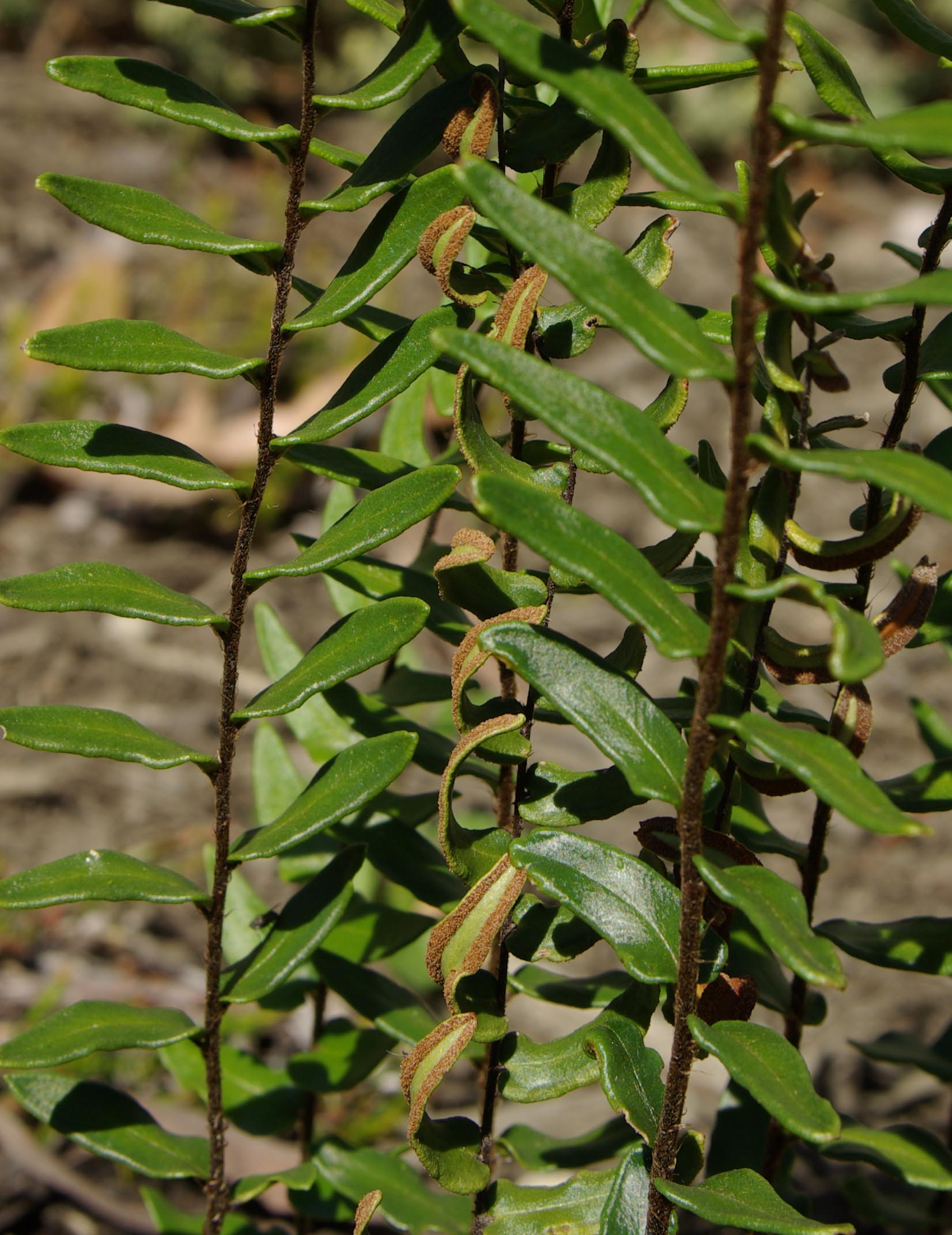 Pellaea calidirupium growing in Royal Tasmanian Botanical Gardens, Hobart